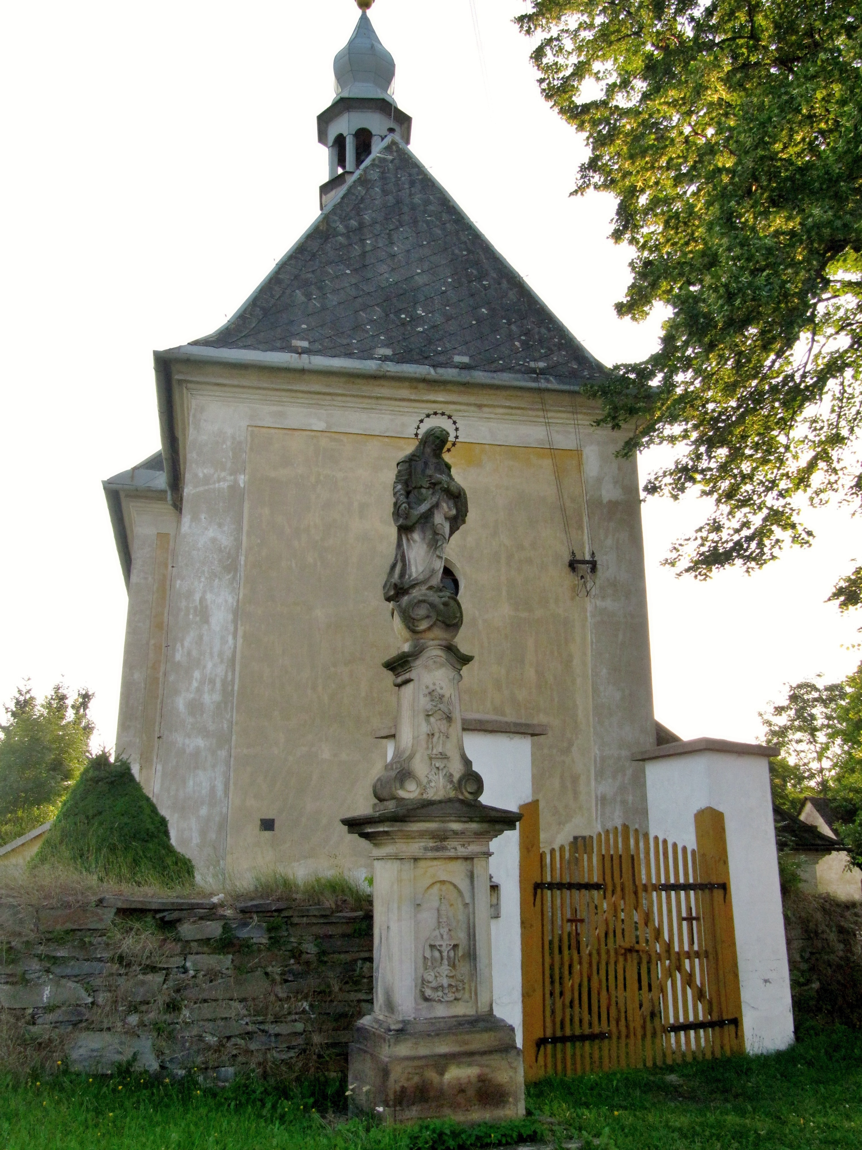 Horní Město in Bruntál District, Czechia, part Rešov. Church of St. Catherine.